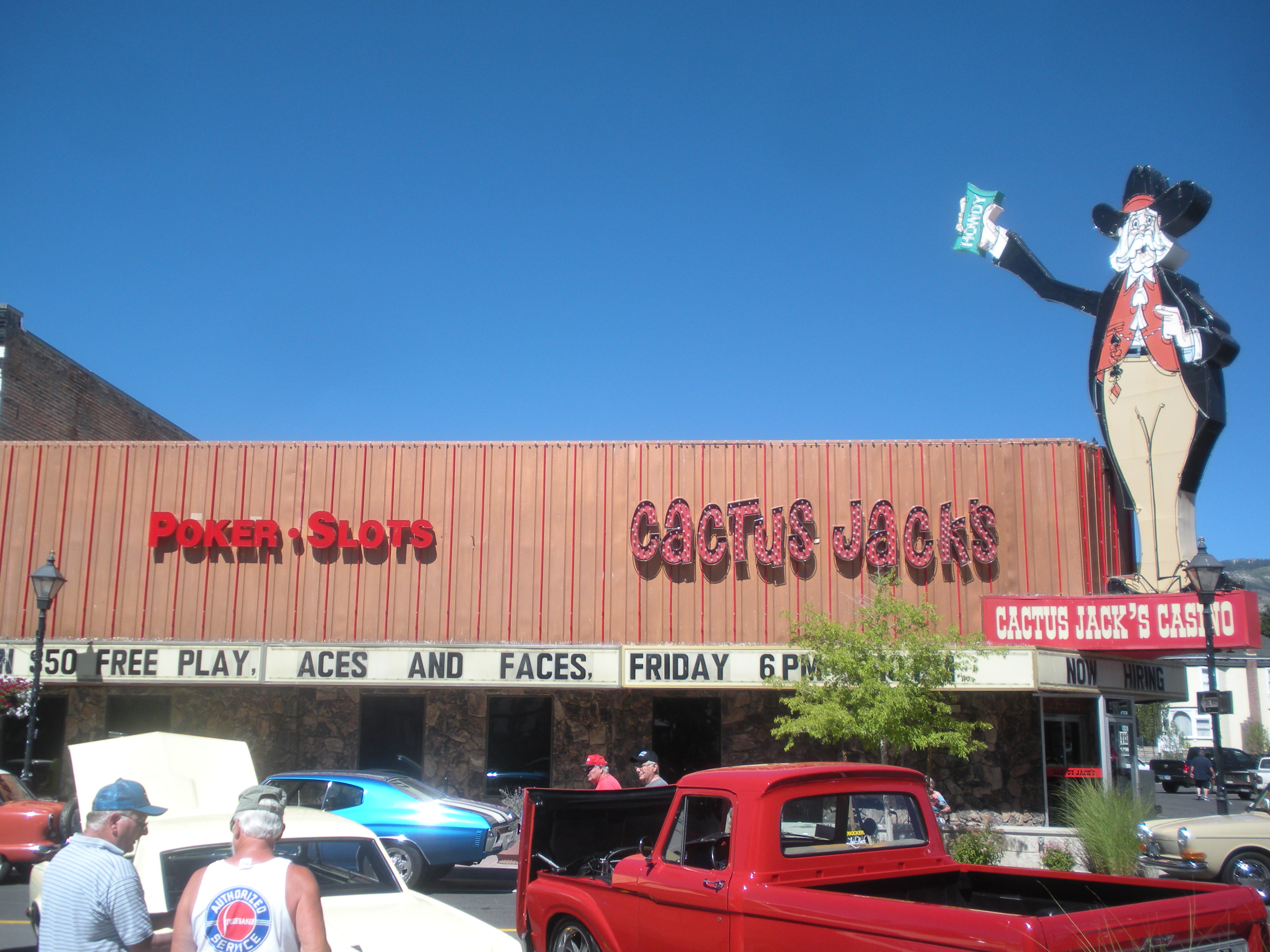 This is Cactus Jack's Casino in Carson City, Nevada. Originally posted to my Flickr